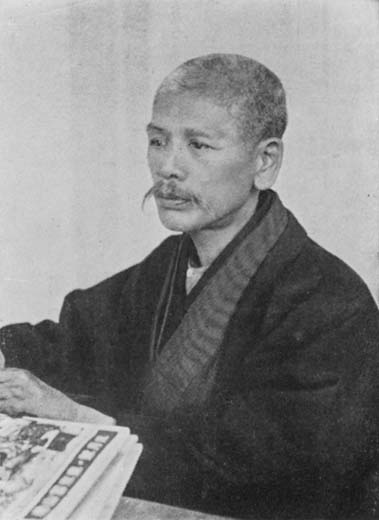 Mr. Wasaburō Ishihara.